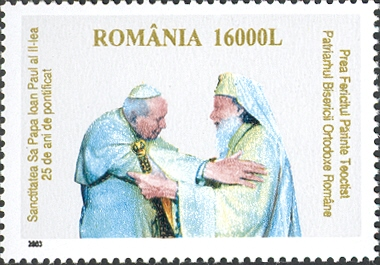 Stamps of Romania, 2003